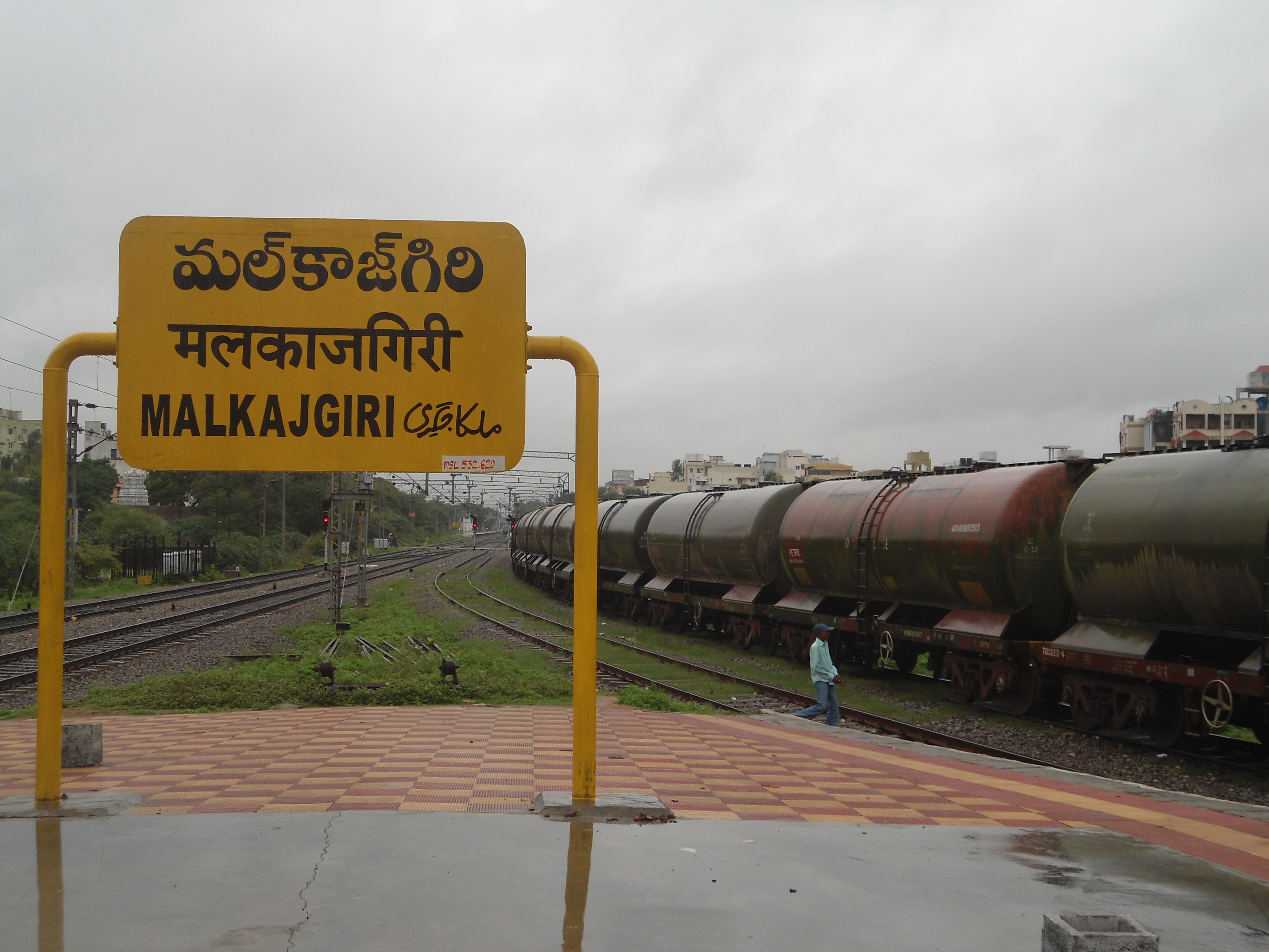 Freight Tanker at Malkajgiri railway station, Secunderabad